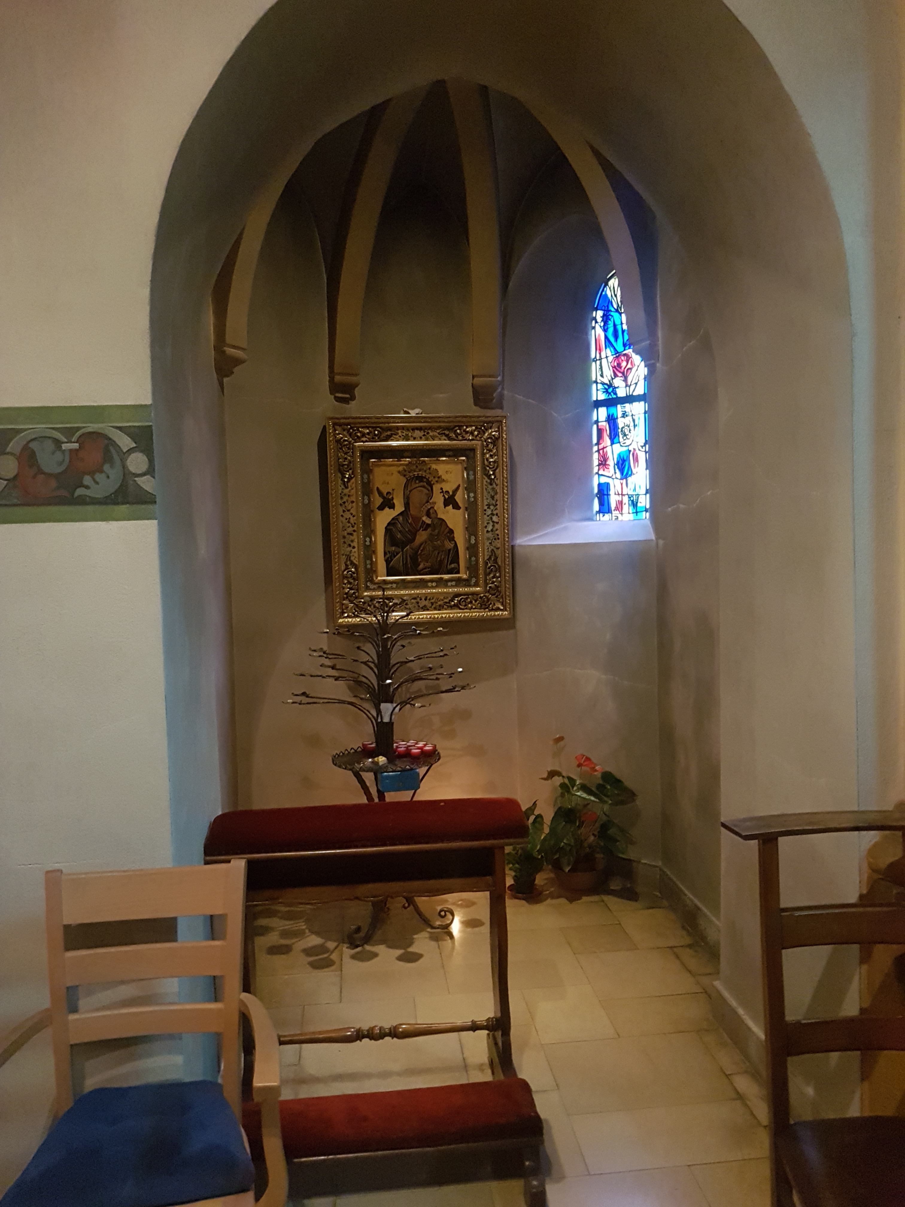 Church of St. Hubert in Luxembourg City in the Rue du Château.